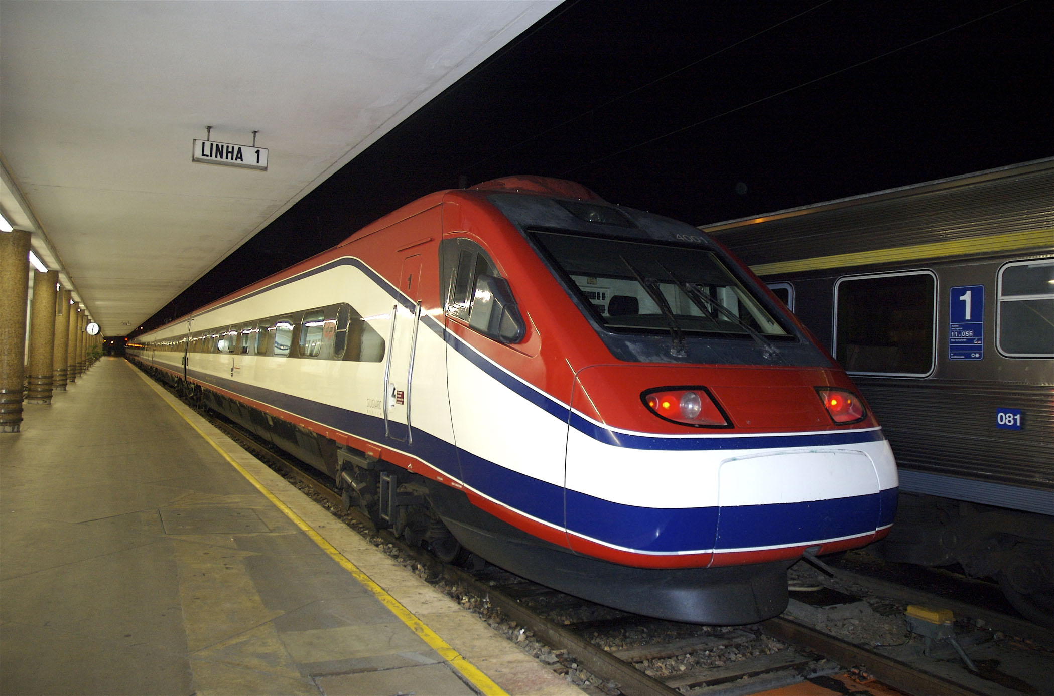 Alfa Pendular is the name of the pendolino high-speed train of Portuguese state railway company CP (Comboios de Portugal). It connects the cities of Braga, Porto, Aveiro, Coimbra, Santarém, Lisbon, Albufeira and Faro, among others. Its top speed is 220 km/h (136.7 mph). Its tilting technology allows the train to negotiate curves at higher speeds than conventional trains. The combination of the resulting high cornering velocity and the tilting movement of the carriages ensures a dynamic experience. The Alfa Pendular high speed train are closely derived from the Giugiaro designed Italian Fiat ETR 460 ‘pendolino’ train. It’s a 6 unit EMU (electrical multiple unit). The traction engines develop 4,0 MW. The bogies had to be redesigned for operation on Portugal's broad gauge track. The trains were assembled by Alstom at the Portuguese Amadora plant. (Wikipedia)